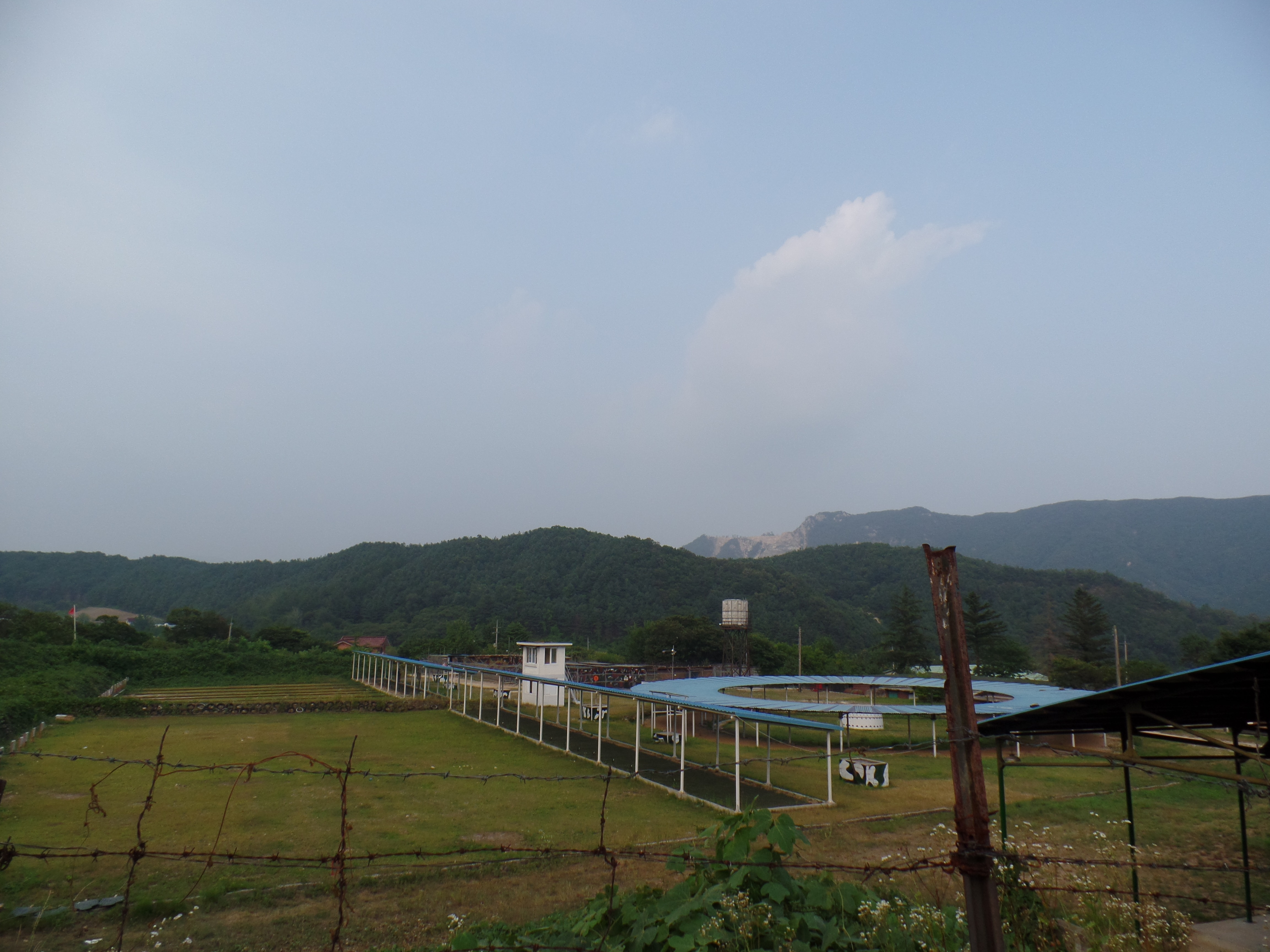 Zero range in Republic of Korea Army 66th Infantry Division Reserve Forces Training Camp